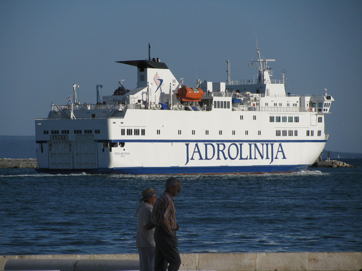 Jadrolinija ferry "Petar Hektorović" in the Split harbour IMO number: 8702446 MMSI number: 238160000 Callsign: 9A6551